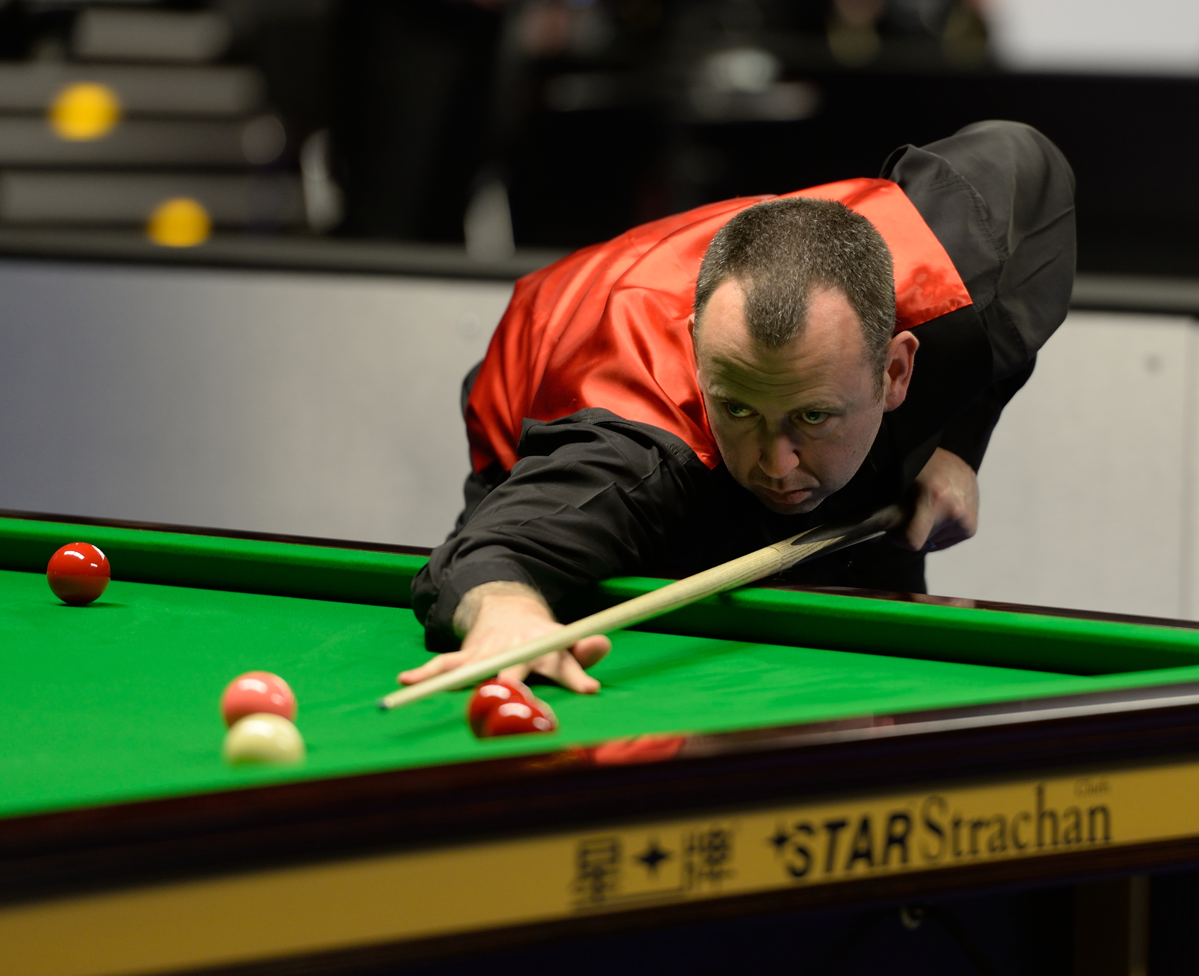 Picture taken in Berlin during the Snooker German Masters in 2015. Mark Williams.